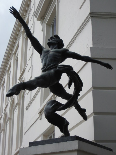 'Jete' by Enzo Plazzotta